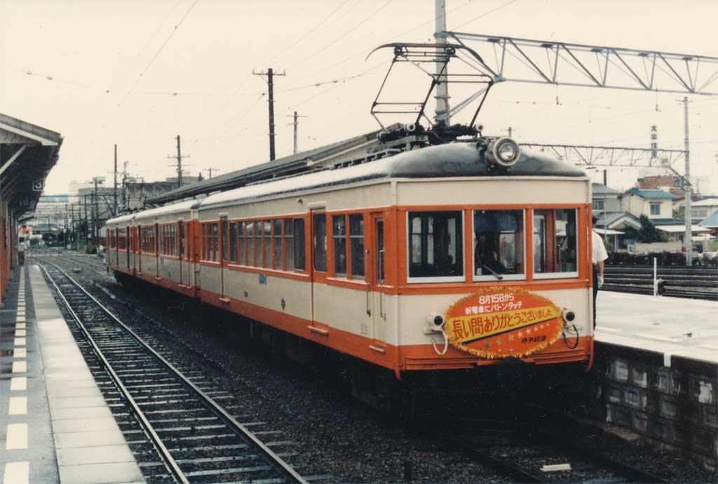 Final run of Iyo Railway EMU set 103 at Komachi Station